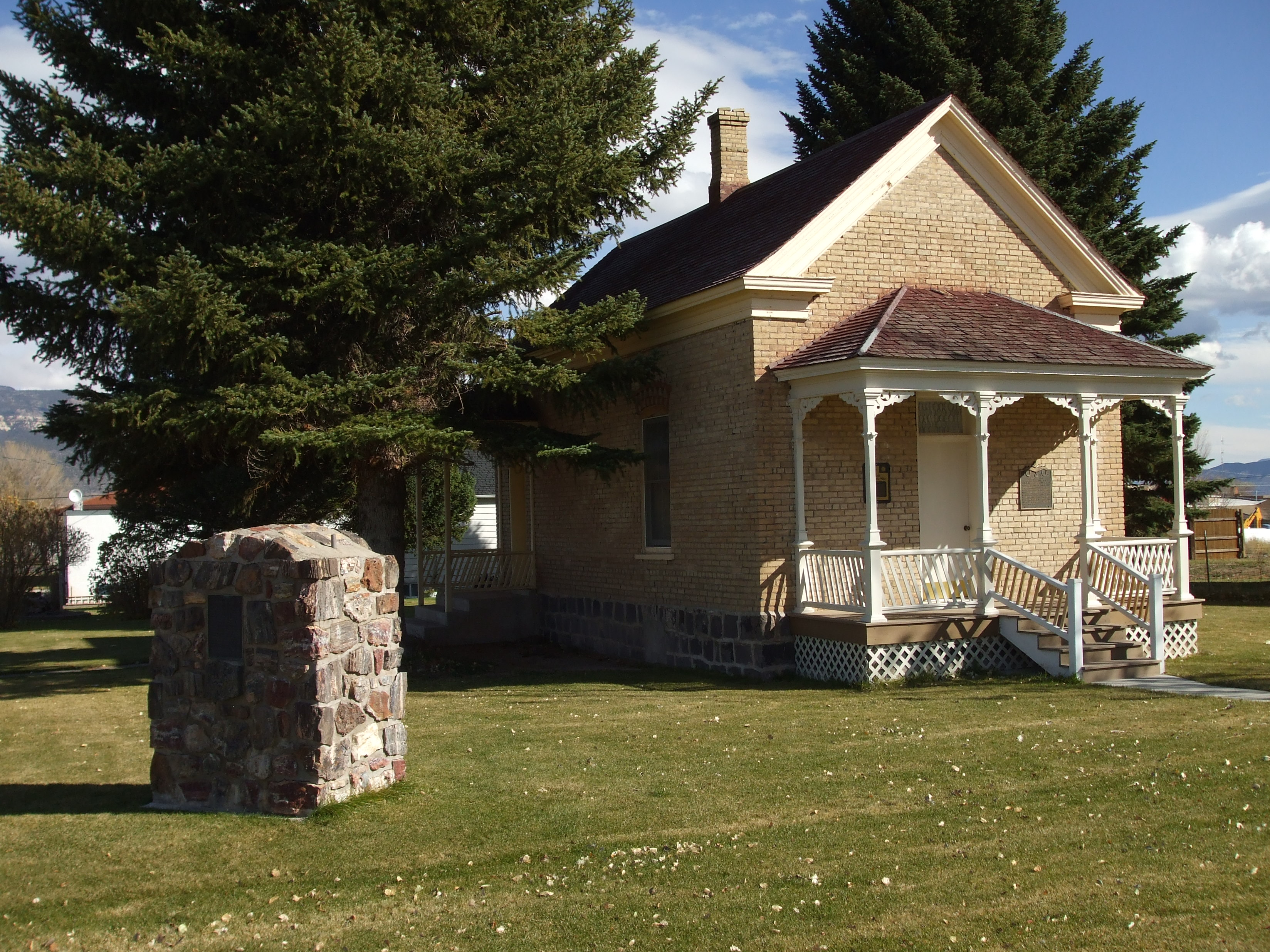 The Loa Tithing Office, a historic building in Loa, Utah, United States.